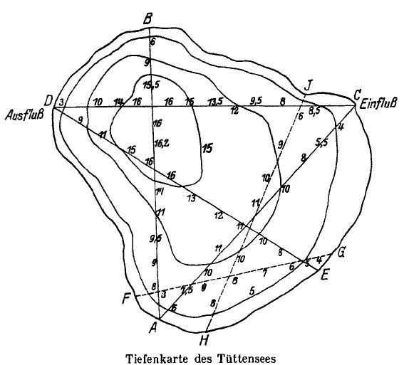 map of depth - lake Tüttensee, Chiemgau